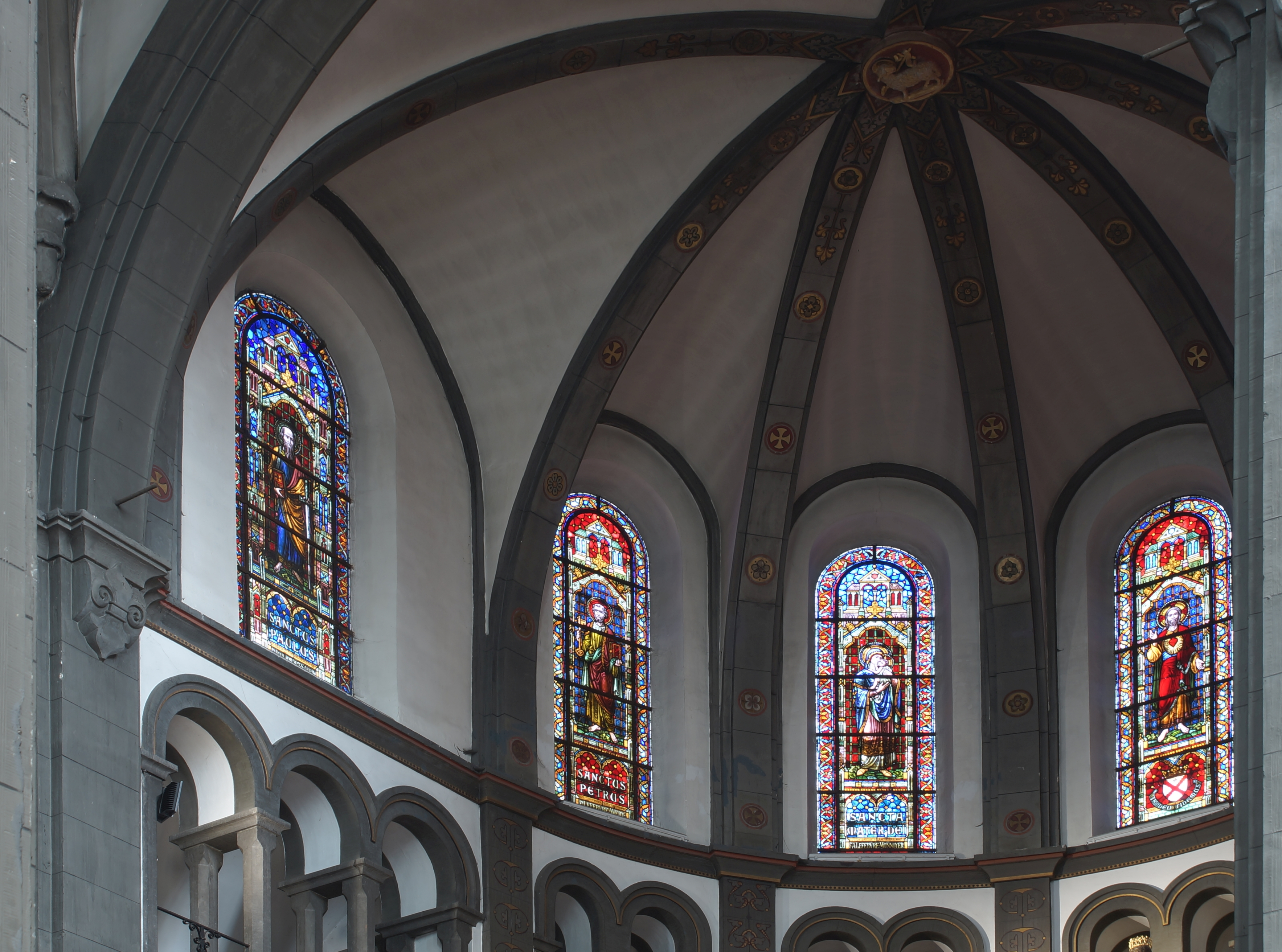 Jumet - Church of the Immaculate Conception - Vault of the choir